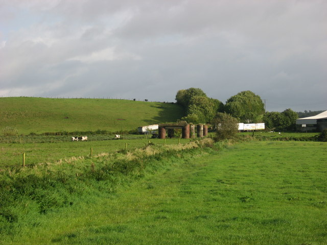 Old railway line at Clones, Co. Monaghan Metal piers are all that remain of the bridge that carried the Castleblaney to Clones railway line over the Ulster Canal in the townland of Clonavilla, just east of Clones. An embankment in the left foreground has been removed.